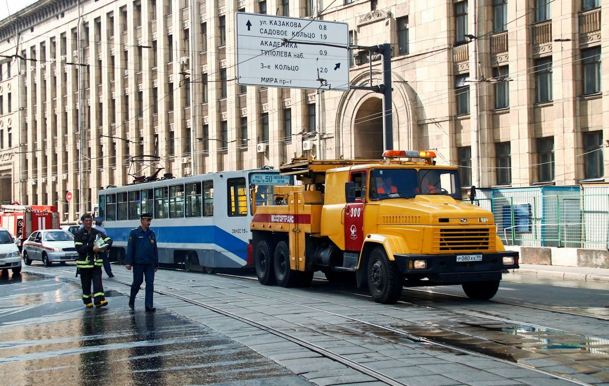 KrAZ truck tows a tram in Russia.